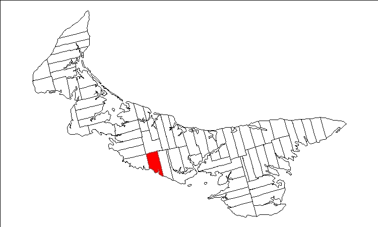 Public domain map of Prince Edward Island created by User:Plasma east with data courtesy of Geogratis, modified to show townships. Released under GFDL (self).